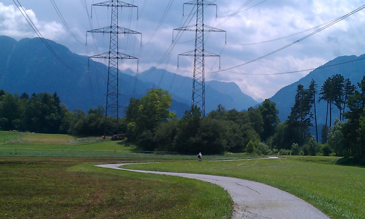 Rodels, towards Thusis National Biker Route 6